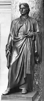 Statue of Robert R. Livingston at NSHC